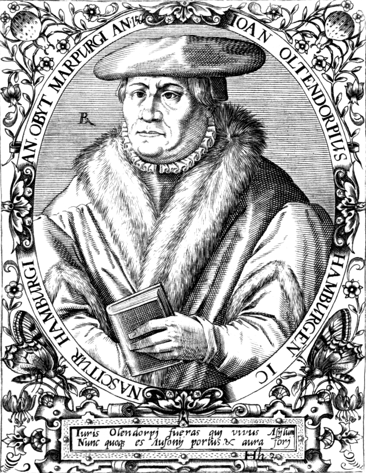 Johann Oldendorp (ca. 1487-1567), lawyer and reformator